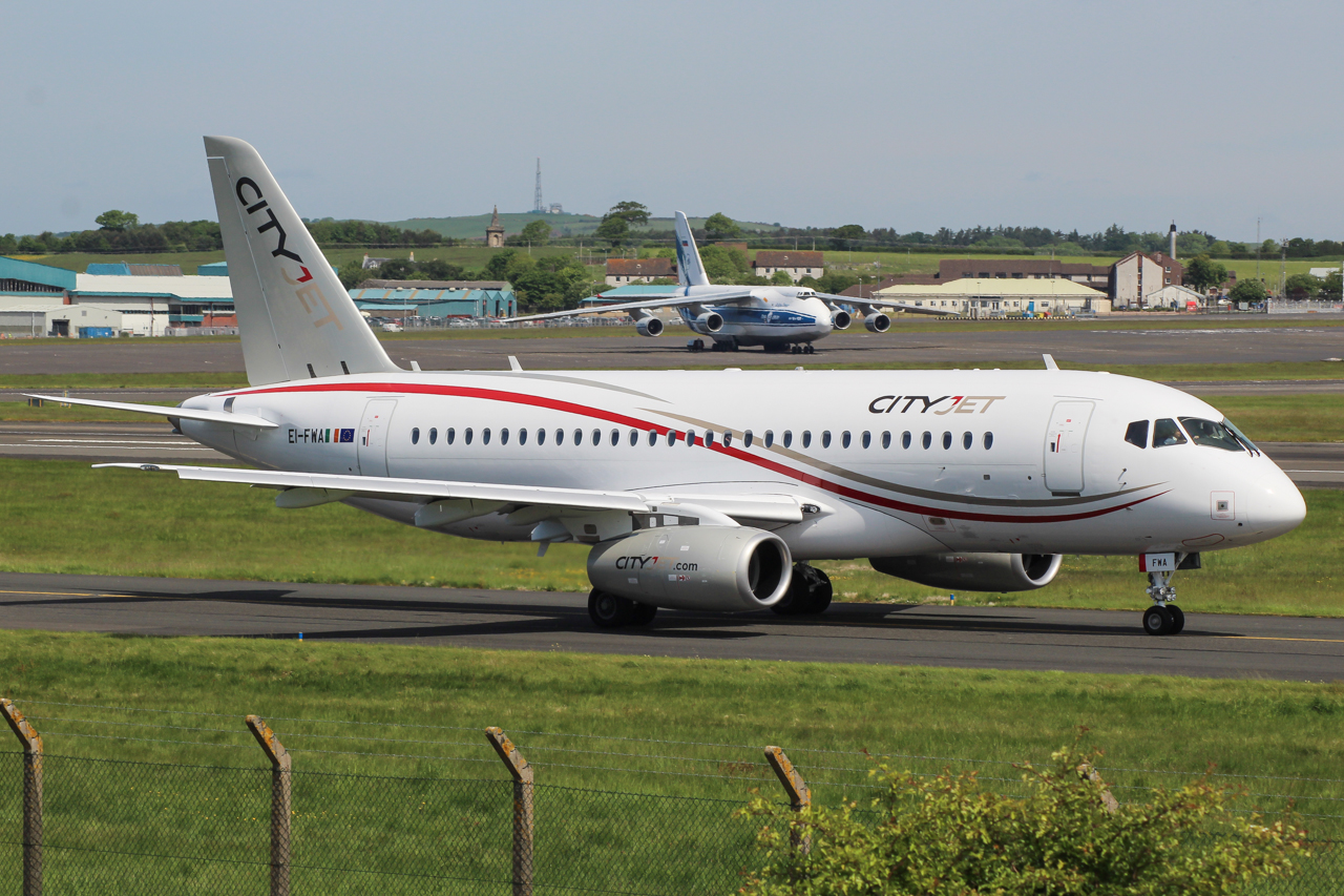 EI-FWA Sukhoi Superjet of CityJet doing a spot of crew training at Prestwick